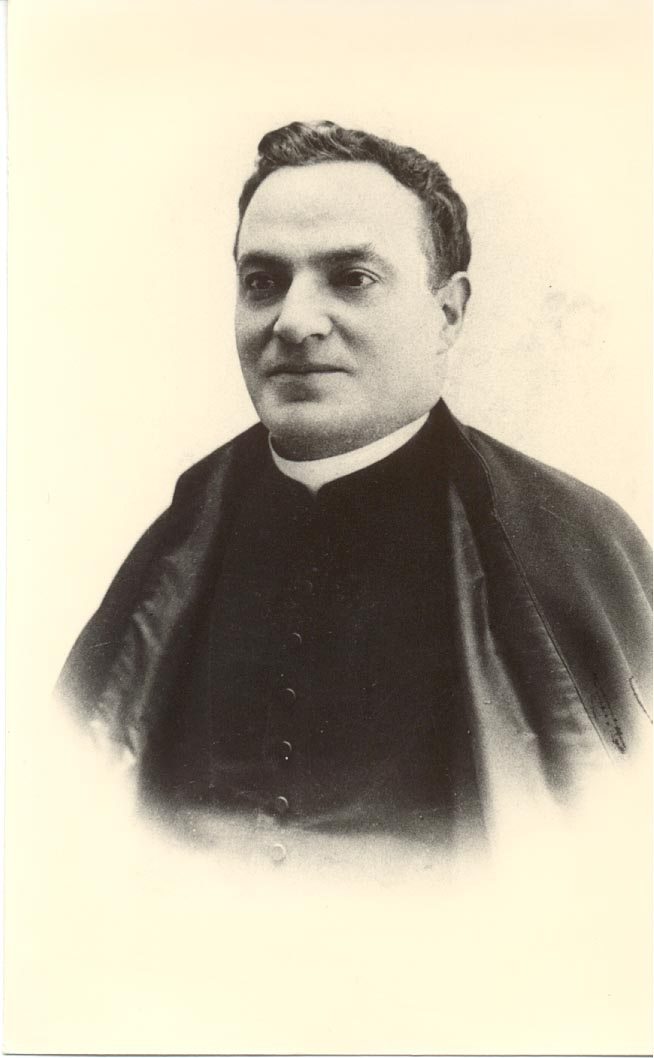 Picture taken around 1904